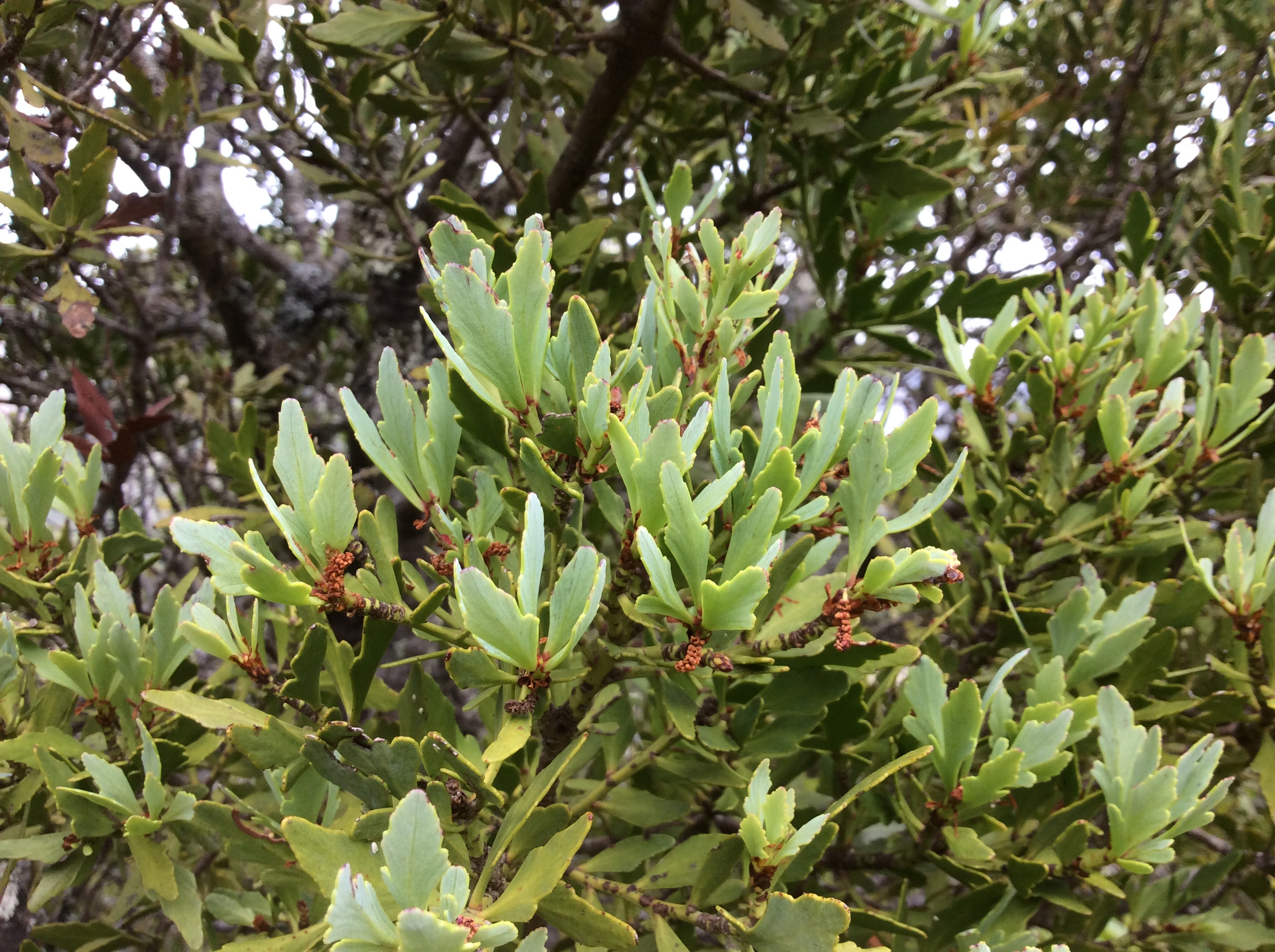 Mountain celery pine (Phyllocladus alpinus) along Governors Bush Walk near Mount Cook Village, South Island, New Zealand. The tree species is endemic to New Zealand.